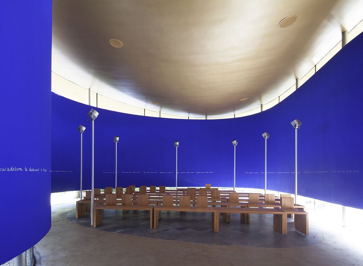 Interior